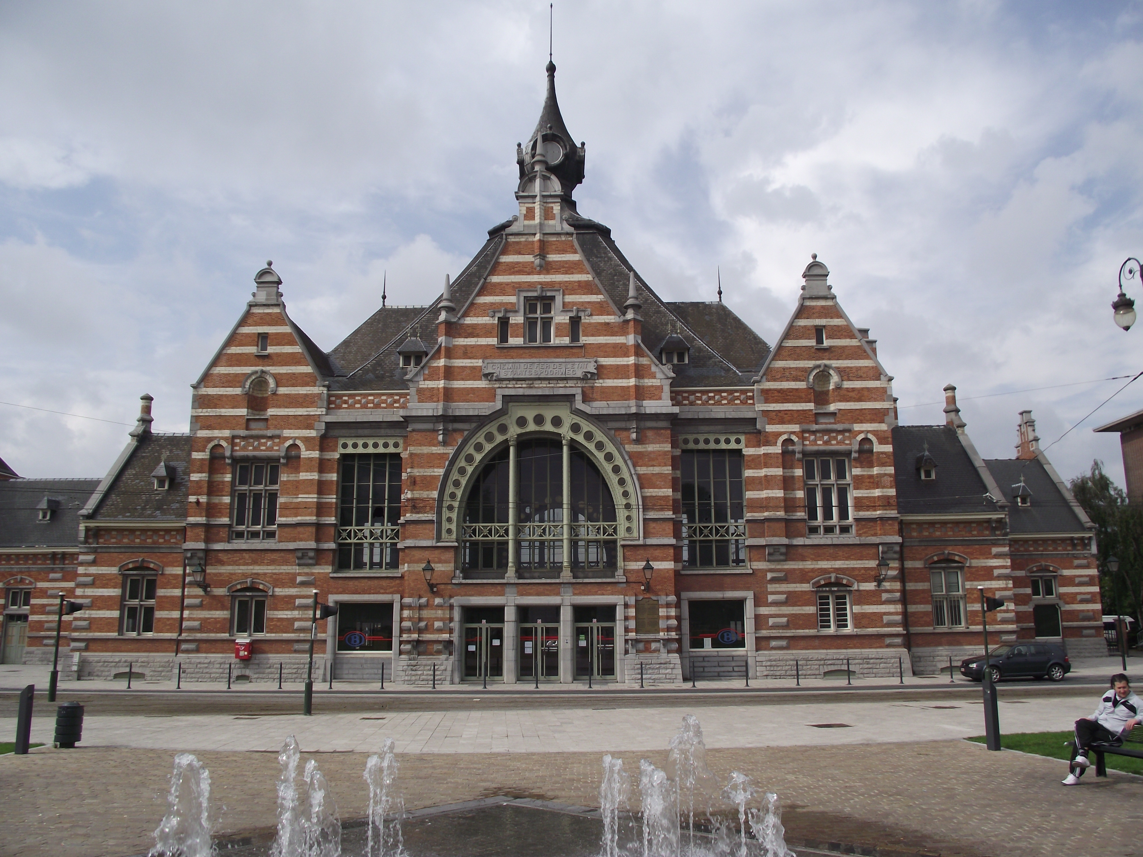 Old Schaerbeek station building.